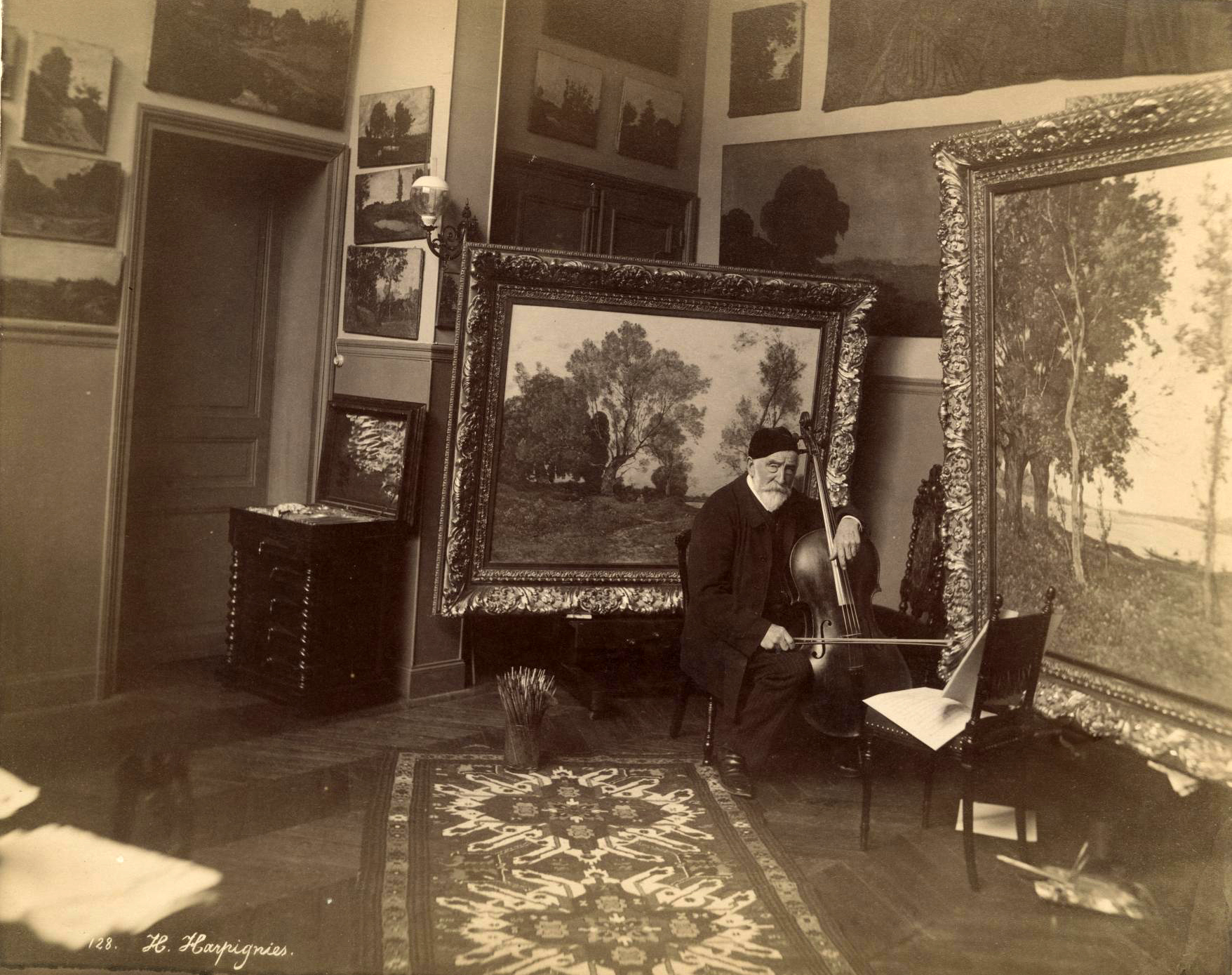 Edmond Bénard, Henri Harpignies in his Paris studio, photograph.